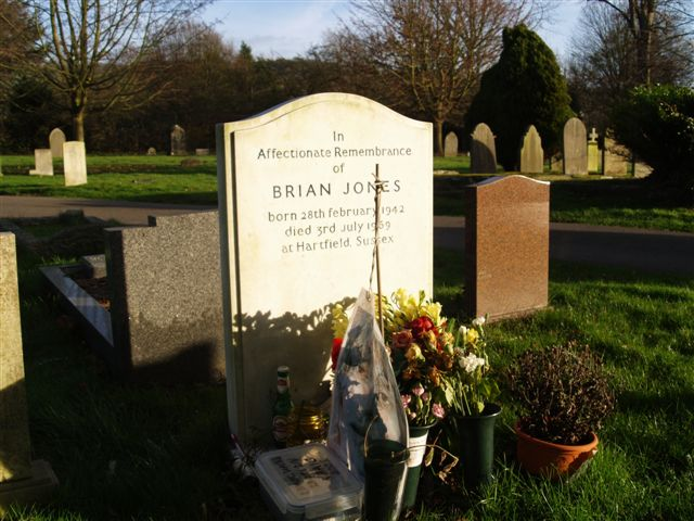 Grave of Brian Jones of the Rolling Stones, Priory Road Cemetery in Prestbury, Gloucestershire